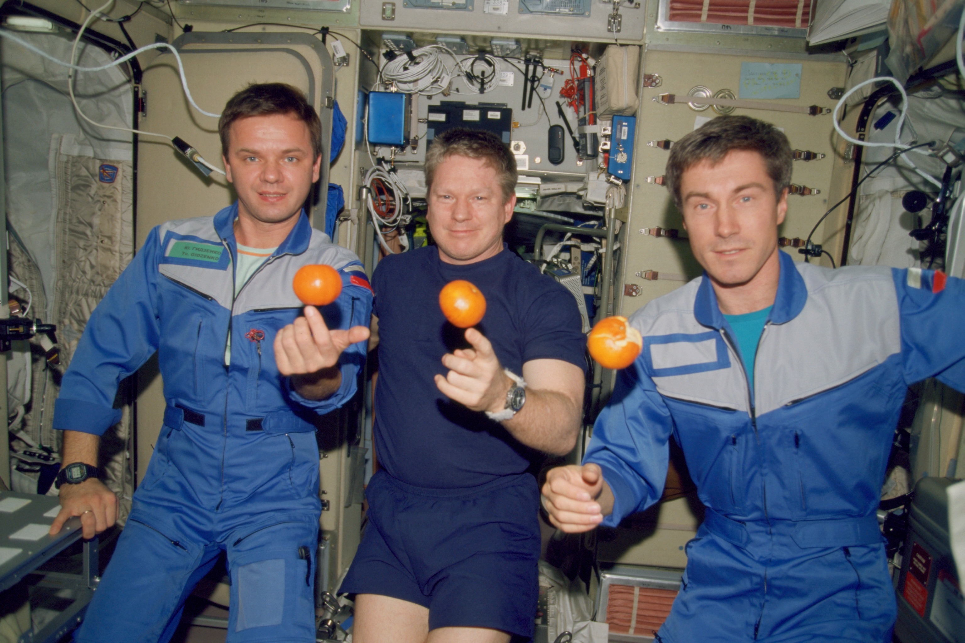 ISS01-328-015 (4 December 2000) --- The Expedition One crew members are about to eat fresh fruit in the form of oranges onboard the Zvezda Service Module of the Earth-orbiting International Space Station (ISS). Pictured, from the left, are cosmonaut Yuri P. Gidzenko, Soyuz commander; astronaut William M. Shepherd, mission commander; and cosmonaut Sergei K. Krikalev, flight engineer.